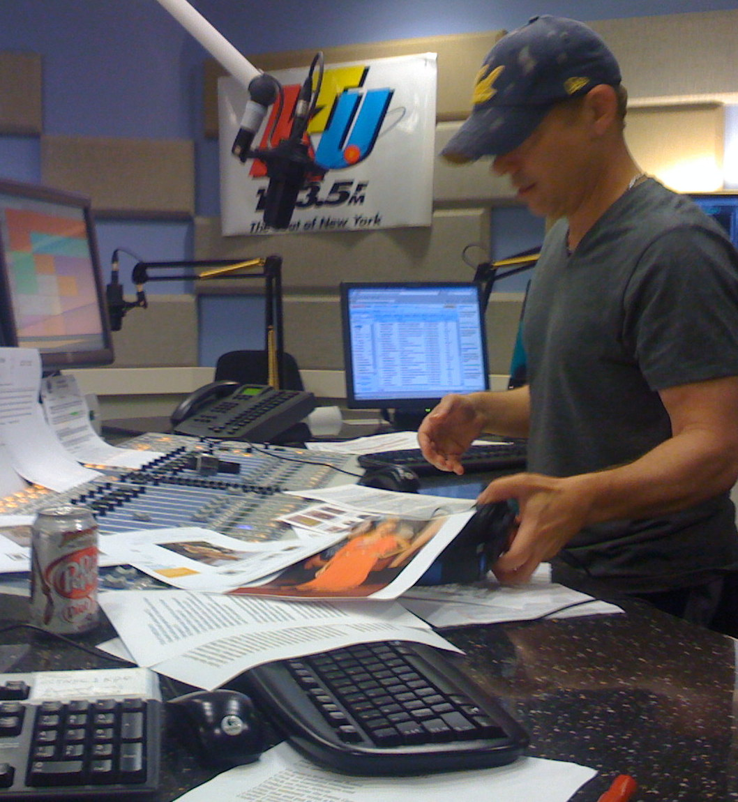 Hollywood Hamilton on KTU